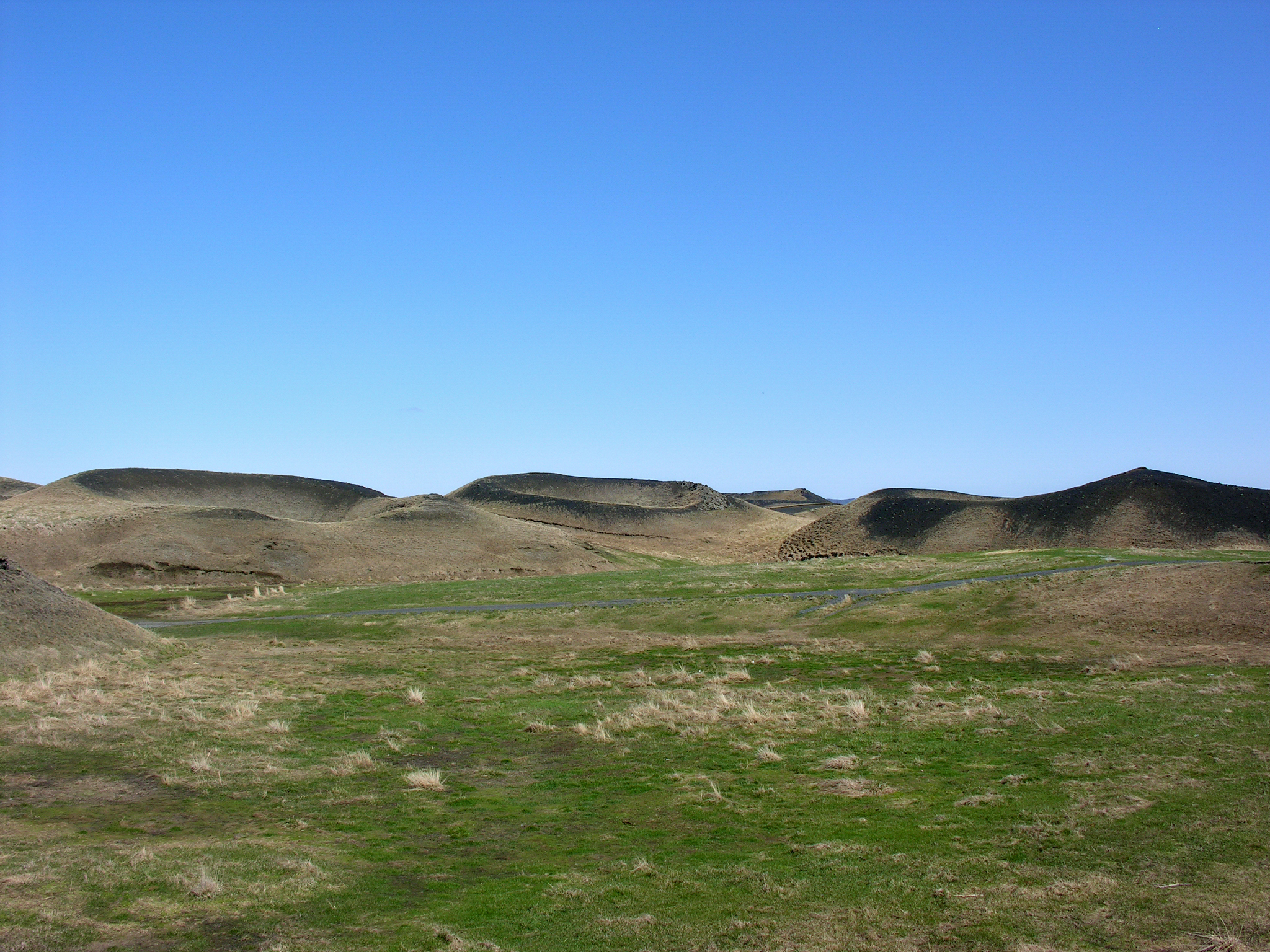 Iceland, pseudocraters in Skútustaðir near Mývatn in Northern Iceland